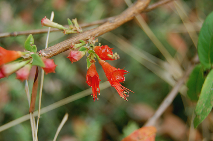 Flowers of Fire Flame Bush (Woodfordia fruticosa)